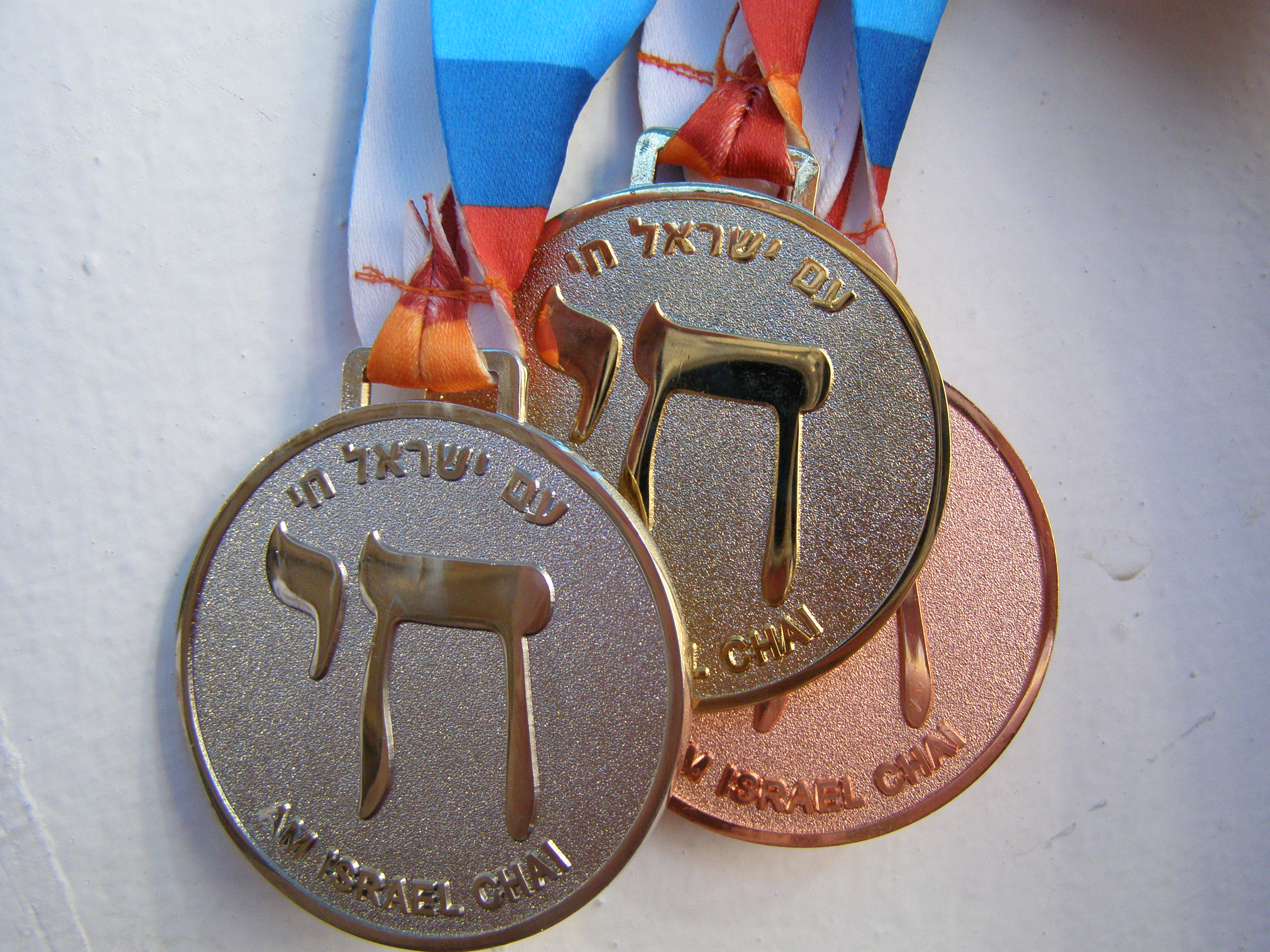 Medals at the Maccabiah games 2009, with slogan "עם ישראל חי" (Am Israel Chai: "The people of Israel lives!", referring to all Jews)